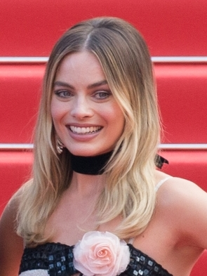 Quentin Tarantino & Margot Robbie in 2019